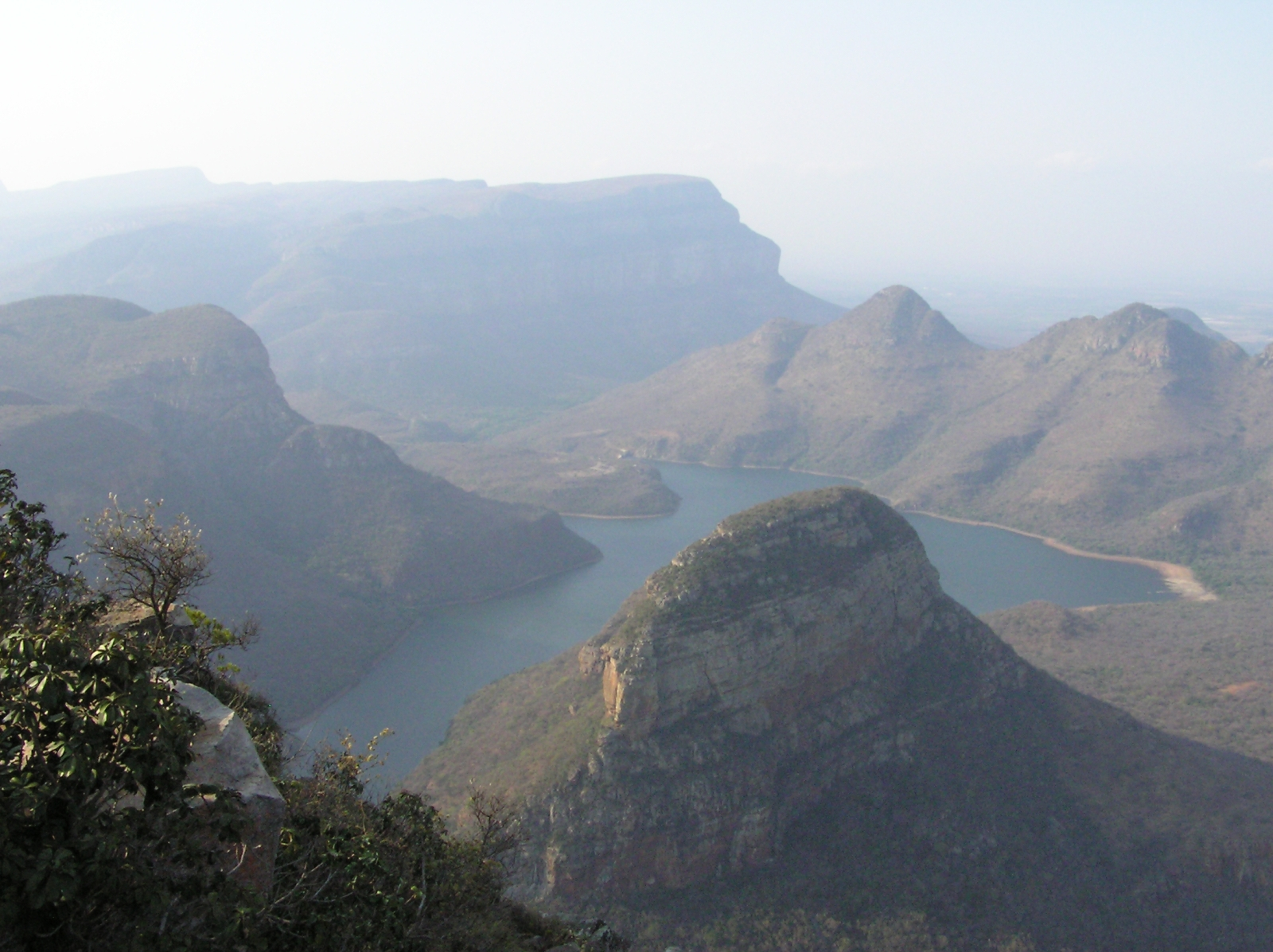 Northward view of Blyde River Canyon, including Thabaneng and Swadeni buttress